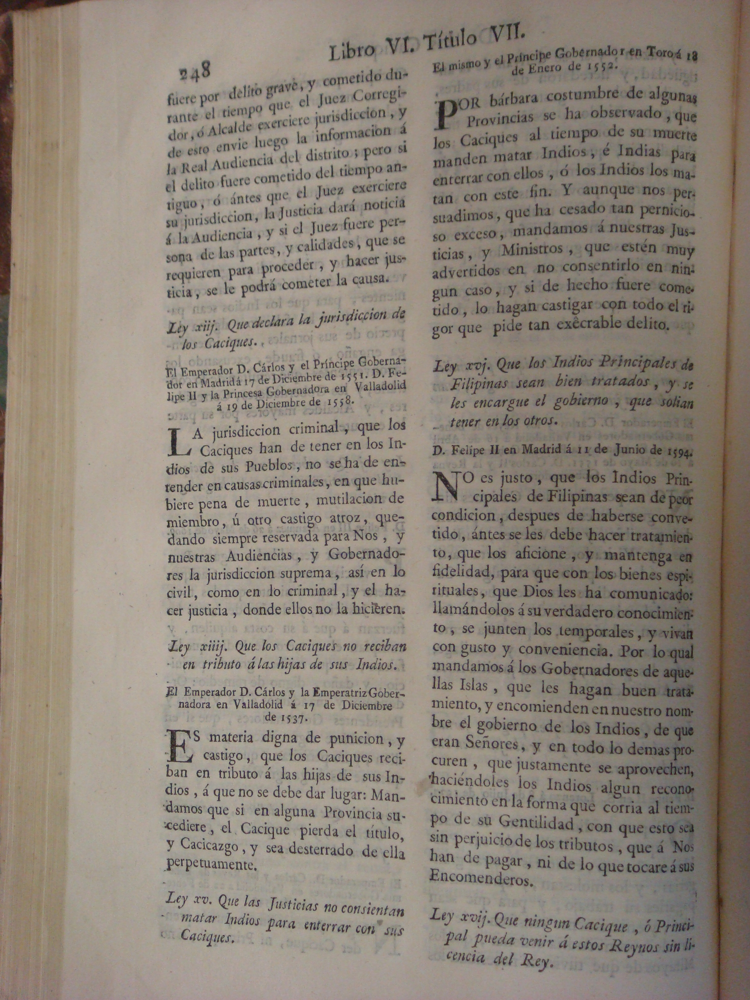 The page of the "Recapitolación de leyes" showing Philip II's Law on the Principalia. The reference can be found at the library of Estudio Teologico Agustiniano de Valladolid in Spain.